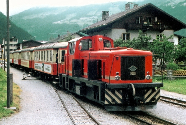 Zillertalbahn diesel No. 8 with the "Payerbach" cars at Zell am Ziller.